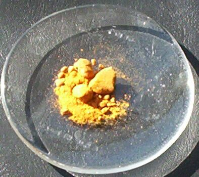 A sample of tetrakis(triphenylphosphine)palladium(0). Picture taken by User:Walkerma, March 2006.